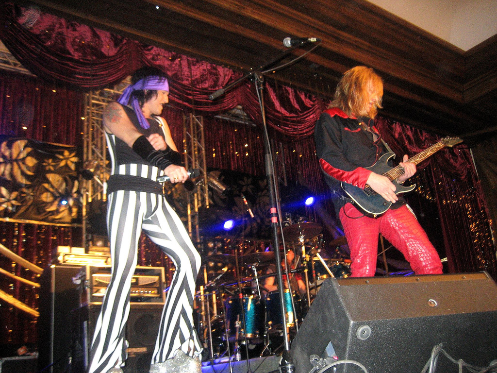 Wig Wam, a Norwegian Glam Rock band who has represented Norway in the Eurovision Song Contest.